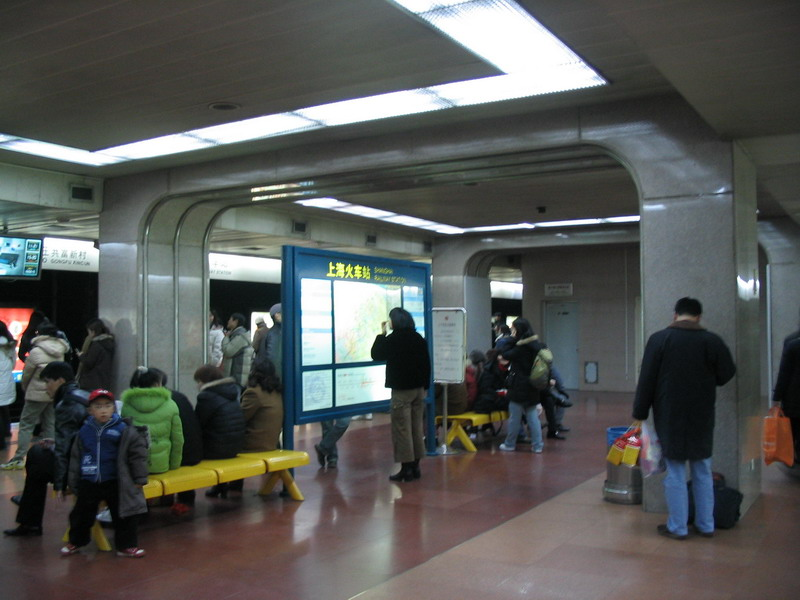 上海火車站-1號線月台 Line 1 Platform of Shanghai Railway Station (Metro)